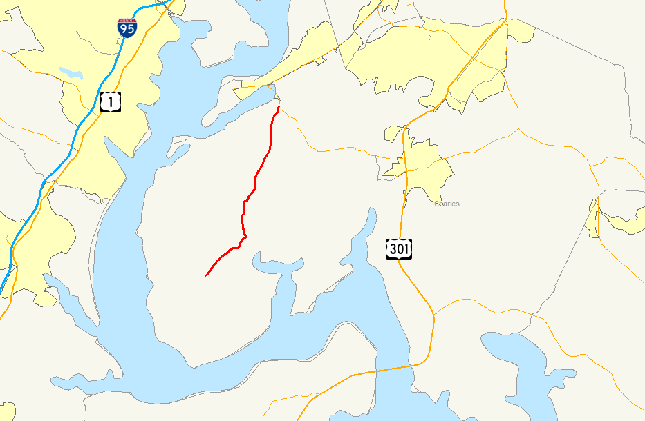 Map of Maryland Route 425